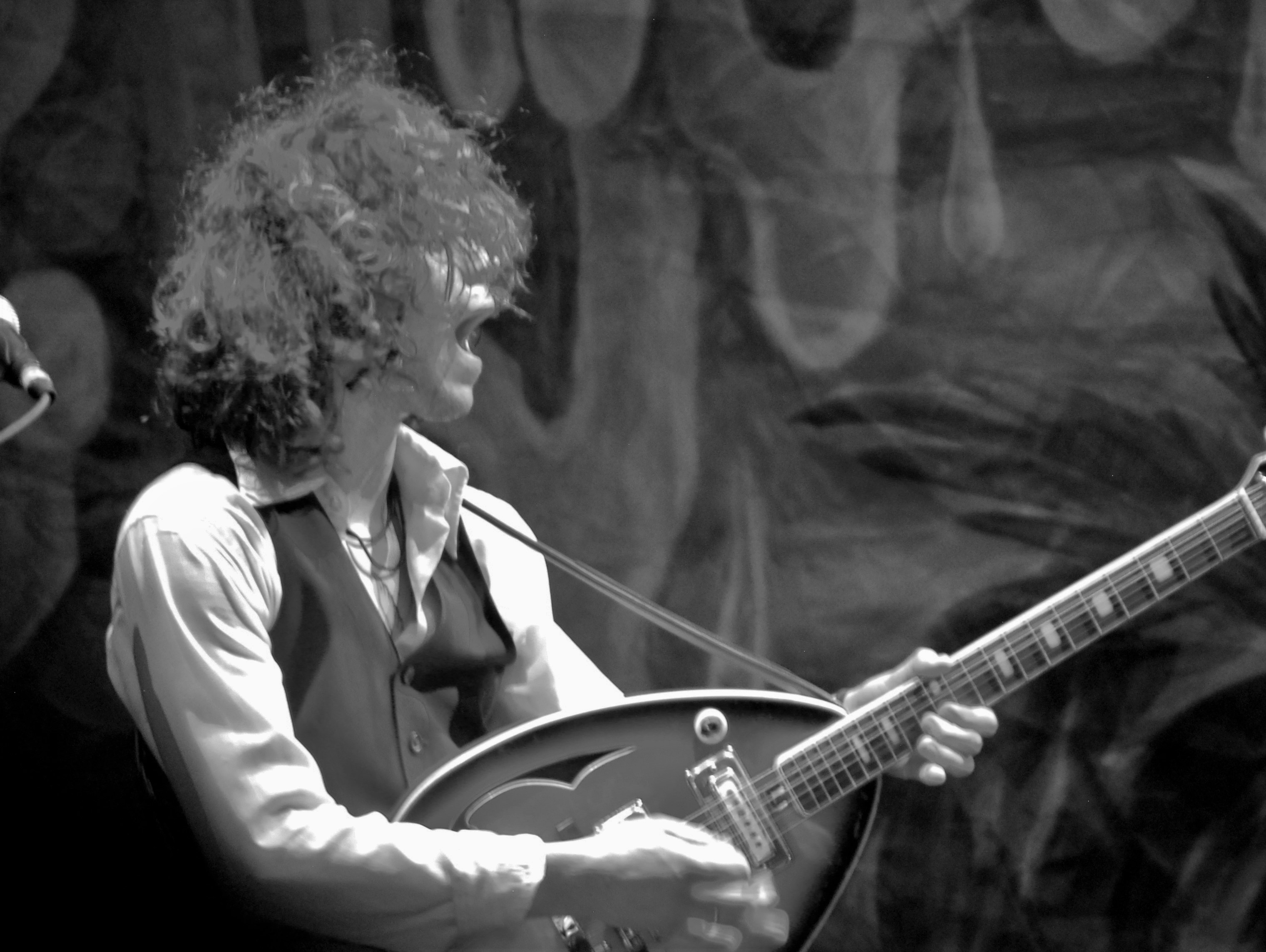 Ian Crawford of Panic! at the Disco in 2009